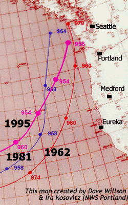 Big Three Storm Paths to hit the Pacific Northwest region of the United States and Britsh-Columbia, Canada, inlcuding the Columbus Day Storm of 1962